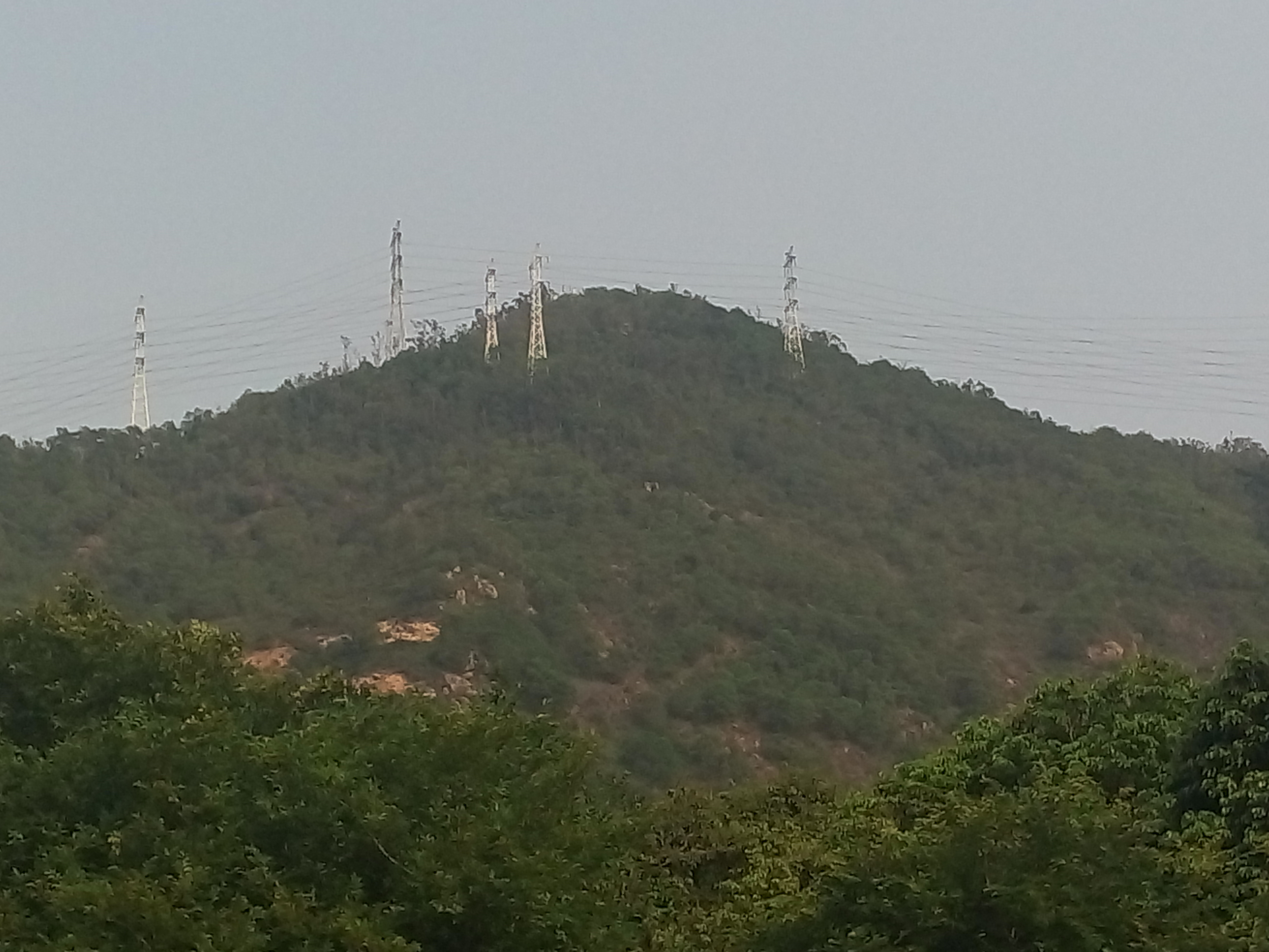 Geography of Shenzhen. Dananshan mountain